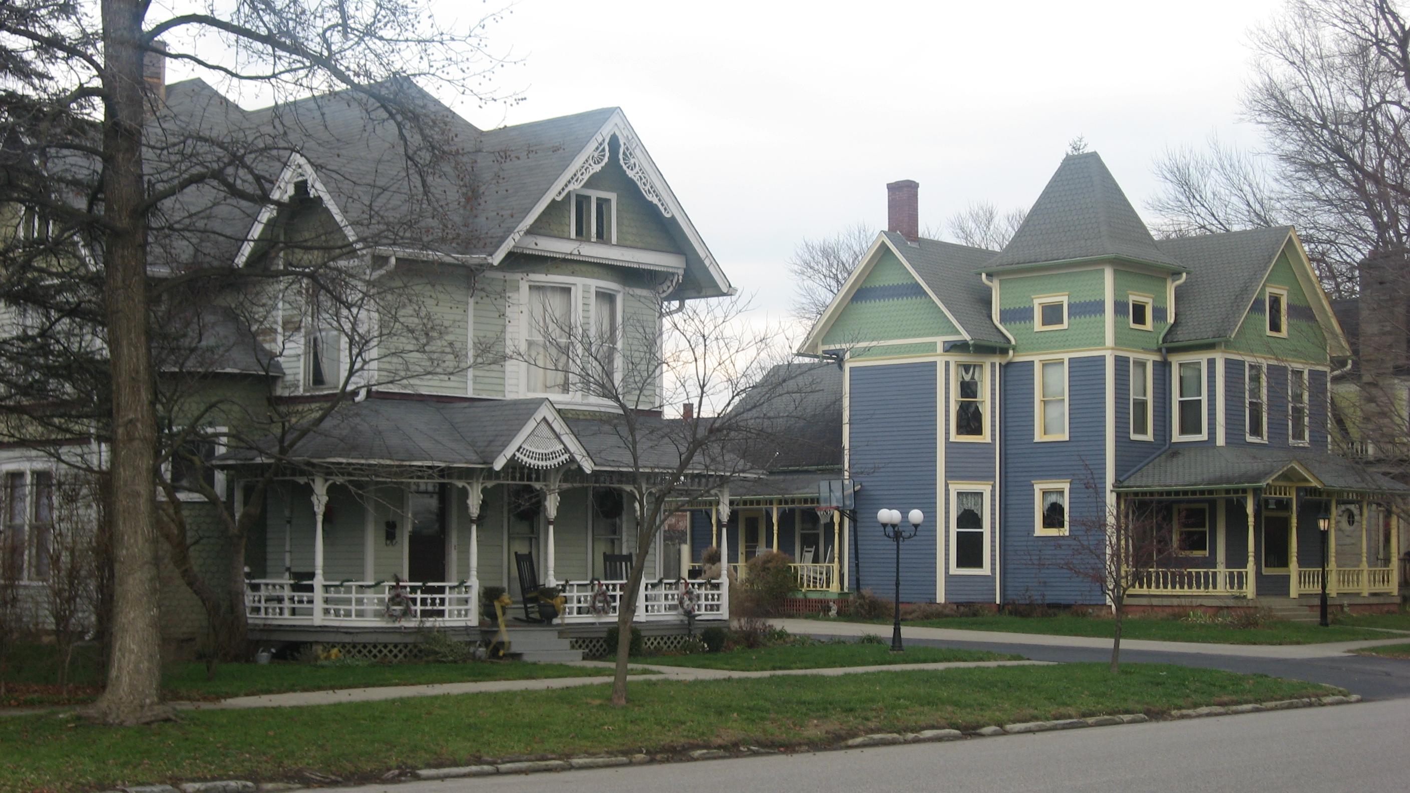 Houses on the northern side of the 500 block of E. Washington Street in Martinsville, Indiana, United States. This block is part of the East Washington Street Historic District, a historic district that is listed on the National Register of Historic Places.